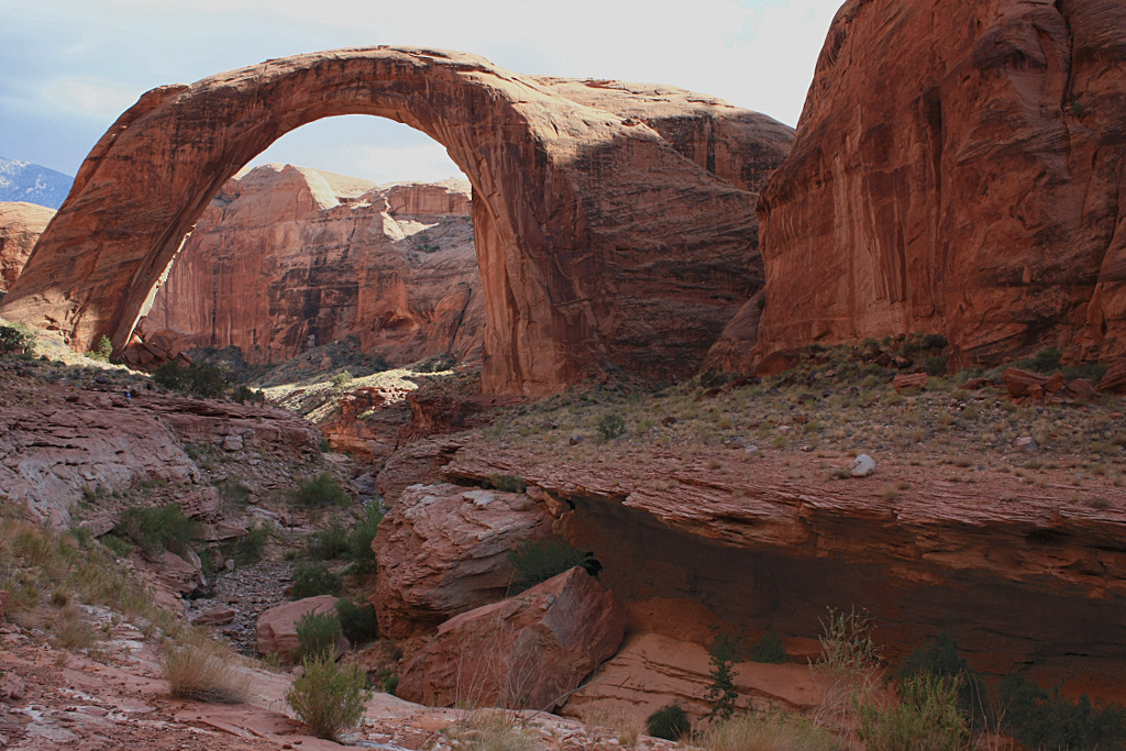 Rainbow Bridge National Monument, Utah, USA